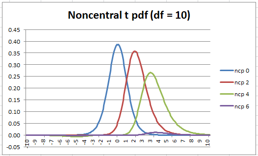 noncentral t pdf plot with degree of freedom 10